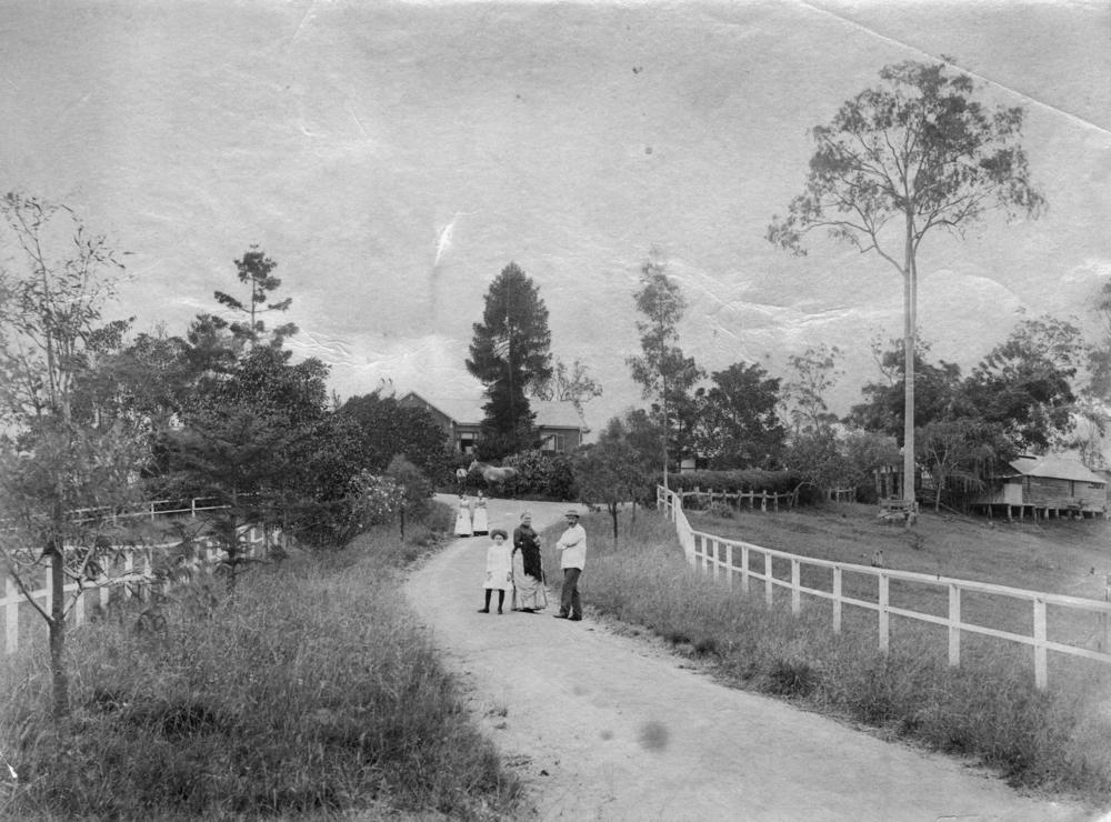 Brisbane residence, Baroona, ca. 1885. Originally built for William Box around 1870 and later occupied by John Donaldson M.L.A. and Sir Robert Philp.